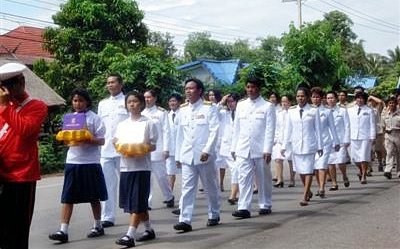 Ban Hat Suea Ten School Location: Ban Hat Suea Ten School Ban Hat Suea Ten, Khung Taphao subdistrict, Mueang Uttaradit, Uttaradit Province, Thailand.